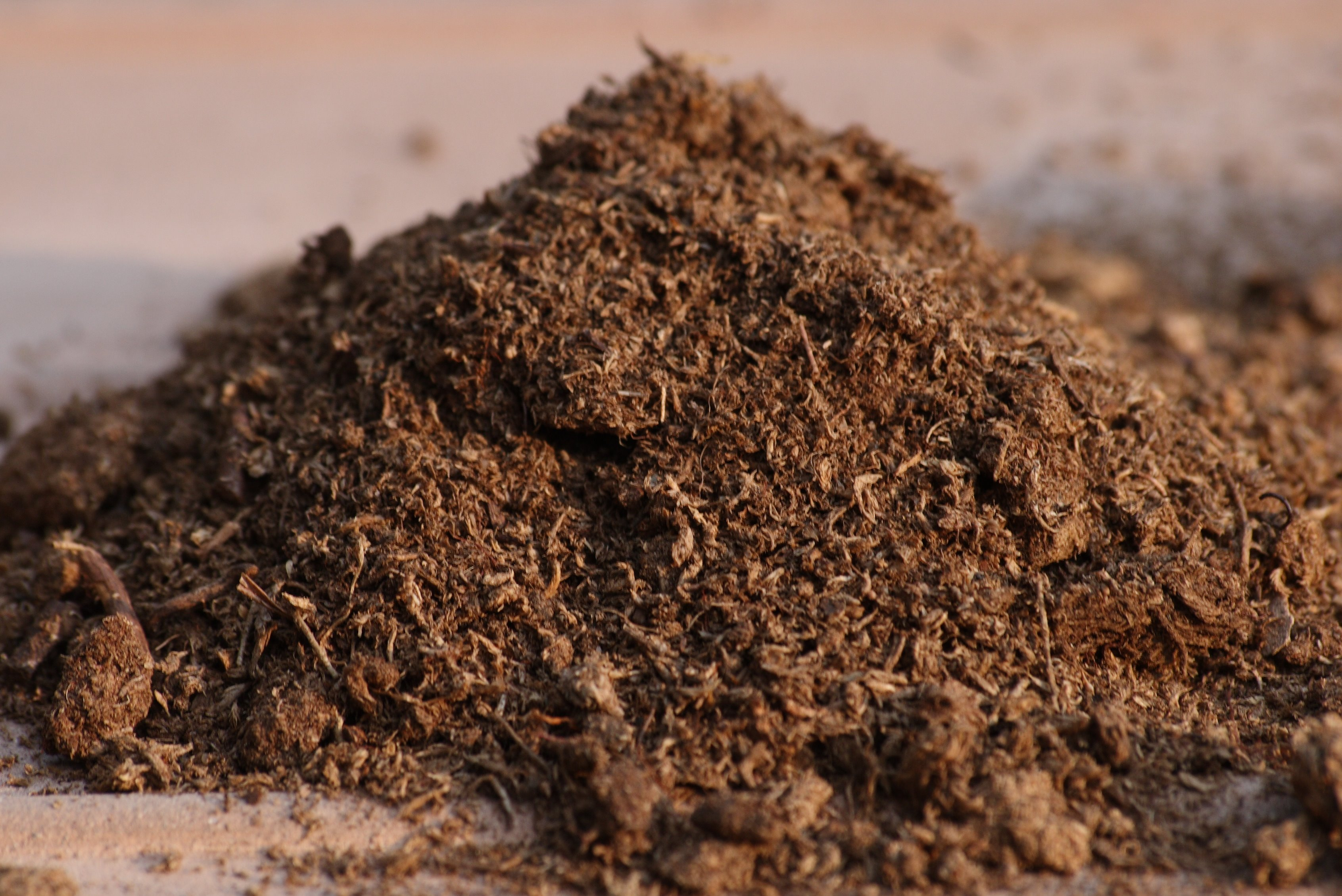 Schultz brand Canadian Sphagnum peat moss, a common soil amendment.